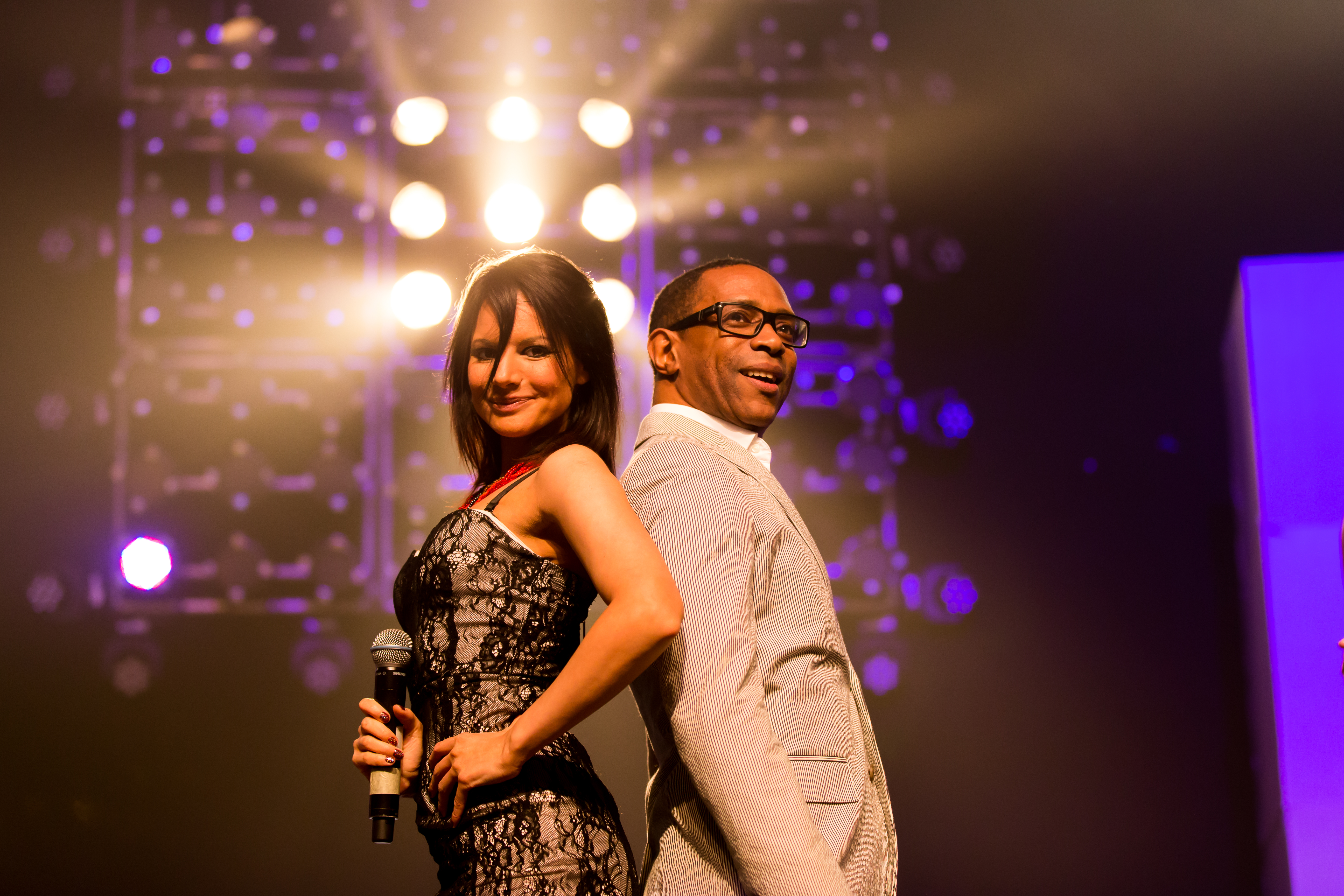 RPR1 90er Festival Maimarkthalle Mannheim Eloy, LayZee aka Mr. President, Nana, Right Said Fred, Snap! feat. Penny Ford during RPR1 90er Festival at Maimarkthalle, Mannheim, Baden-Württemberg, Germany on 2015-03-14, Photo: Sven Mandel